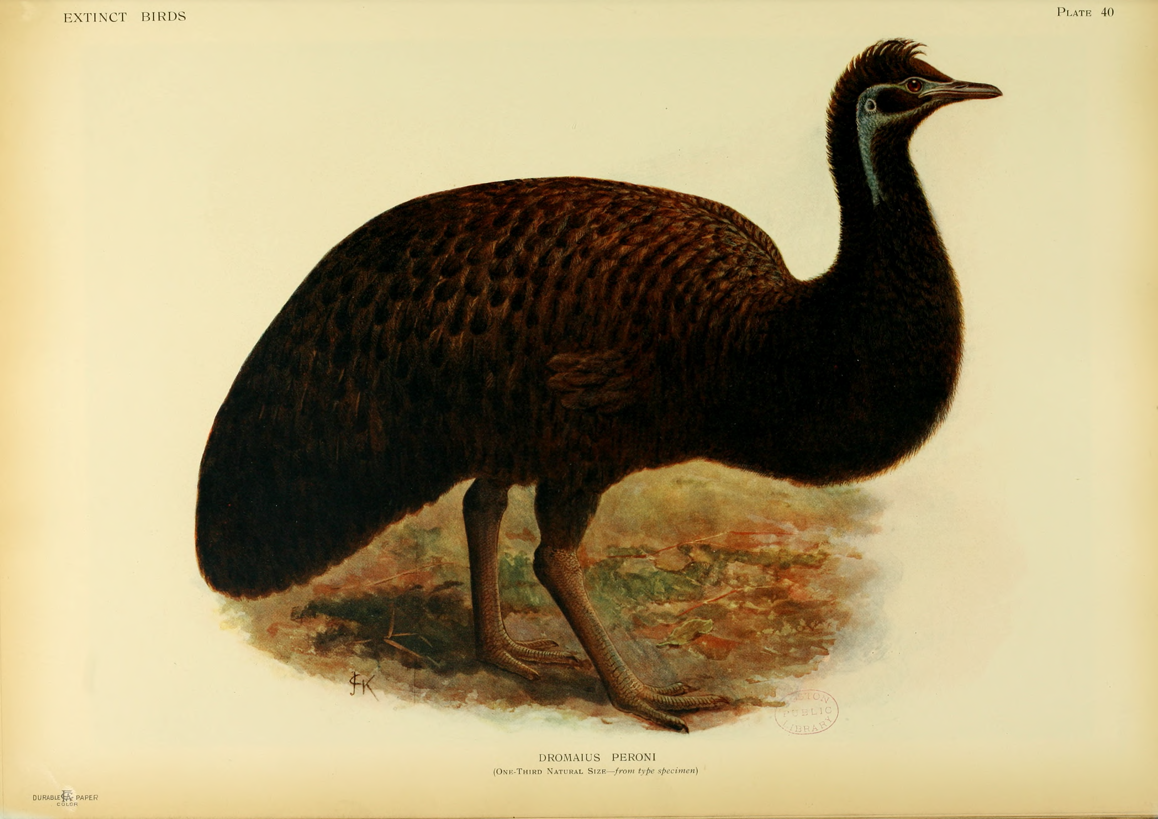 Restoration of an extinct emu based on a specimen in the Museum of Natural History in Paris, now thought to belong to Dromaius ater from King Island. However, in Rothschild's book, it is used to illustrate Dromaius peroni (which is now a synonym of Dromaius baudinianus), coined for the species from Kangaroo Island he thought the specimen belonged to.